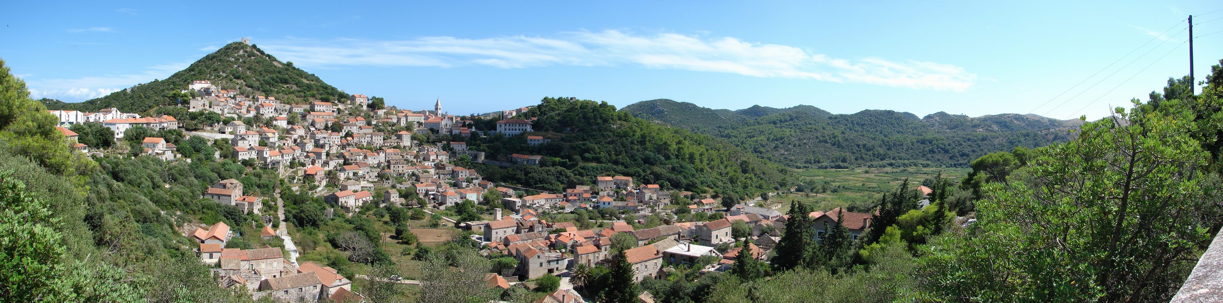 Panorama Lastova